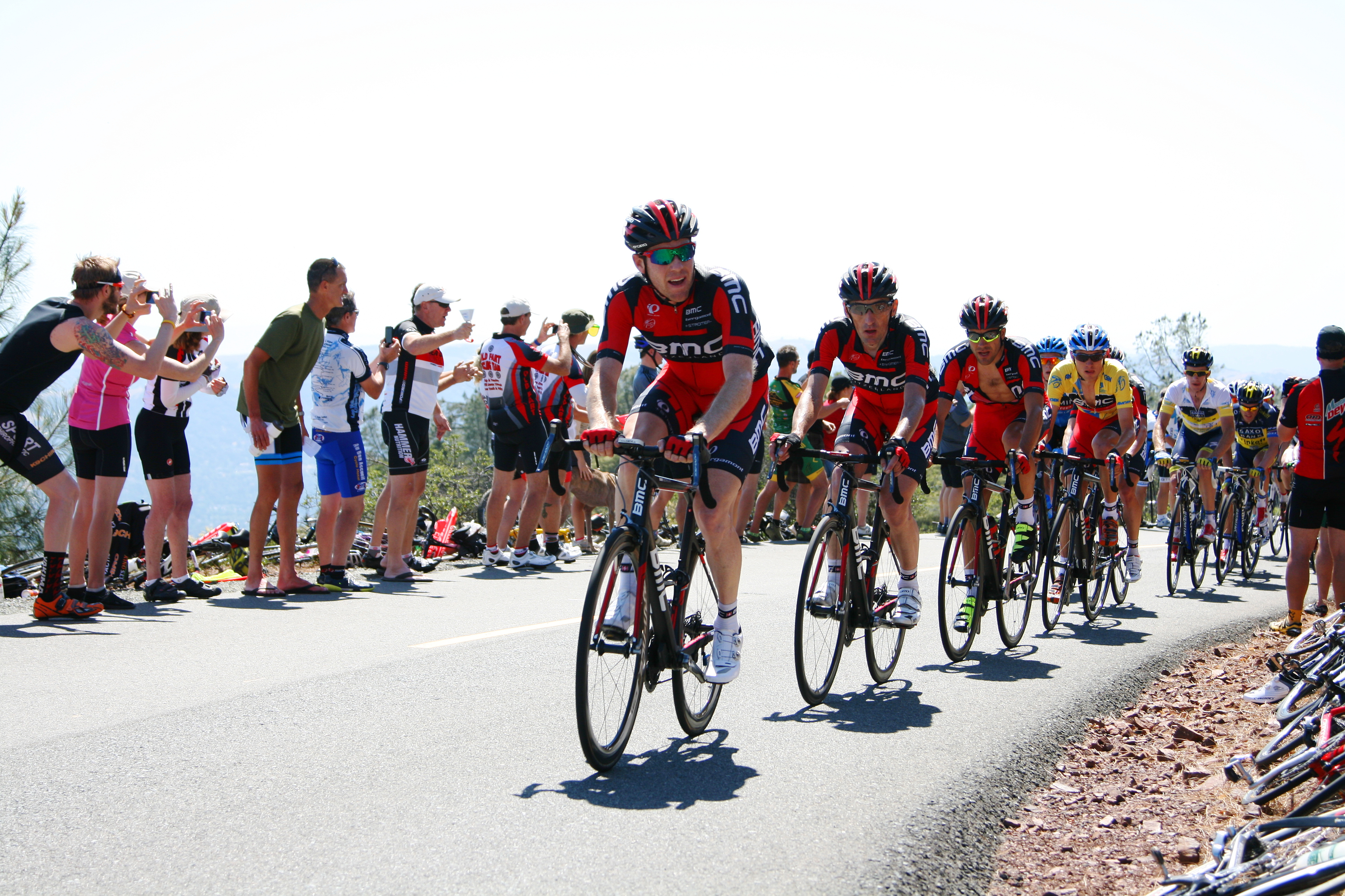 Seventh stage of the 2013 Amgen Tour of California. BMC Racing Team leading the pack and taking the leader Tejay Van Garderen in the ascent of Mount Diablo